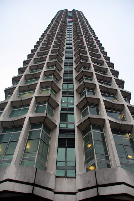 Centre Point. The south side of Centre Point seen from St Giles High Street. See also 1445016.